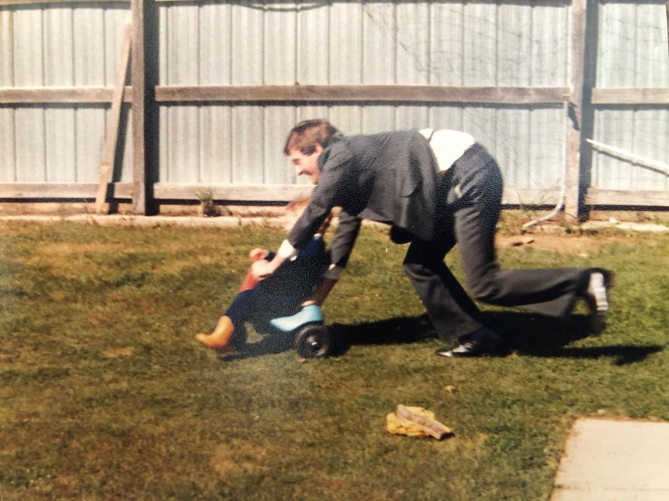 Andrew Hastie with his father Peter Hastie back yard Wangaratta Victoria circa